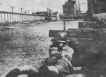 The Chinese 88th Division in Shanghai, 1937.